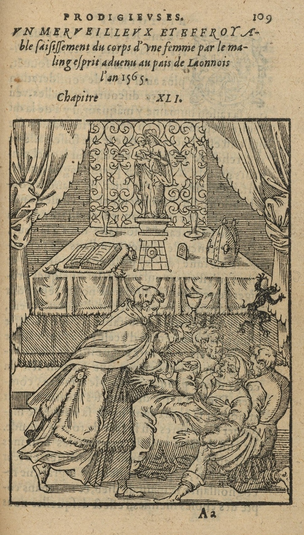 Illustration from Histoires Prodigievses xtraictes de plvsievrs famevx avtevrs, grecs & latins, sacrez & prophanes, 1575, by Pierre Boaistuau. *FC5.B6303.560hi, Houghton Library, Harvard University